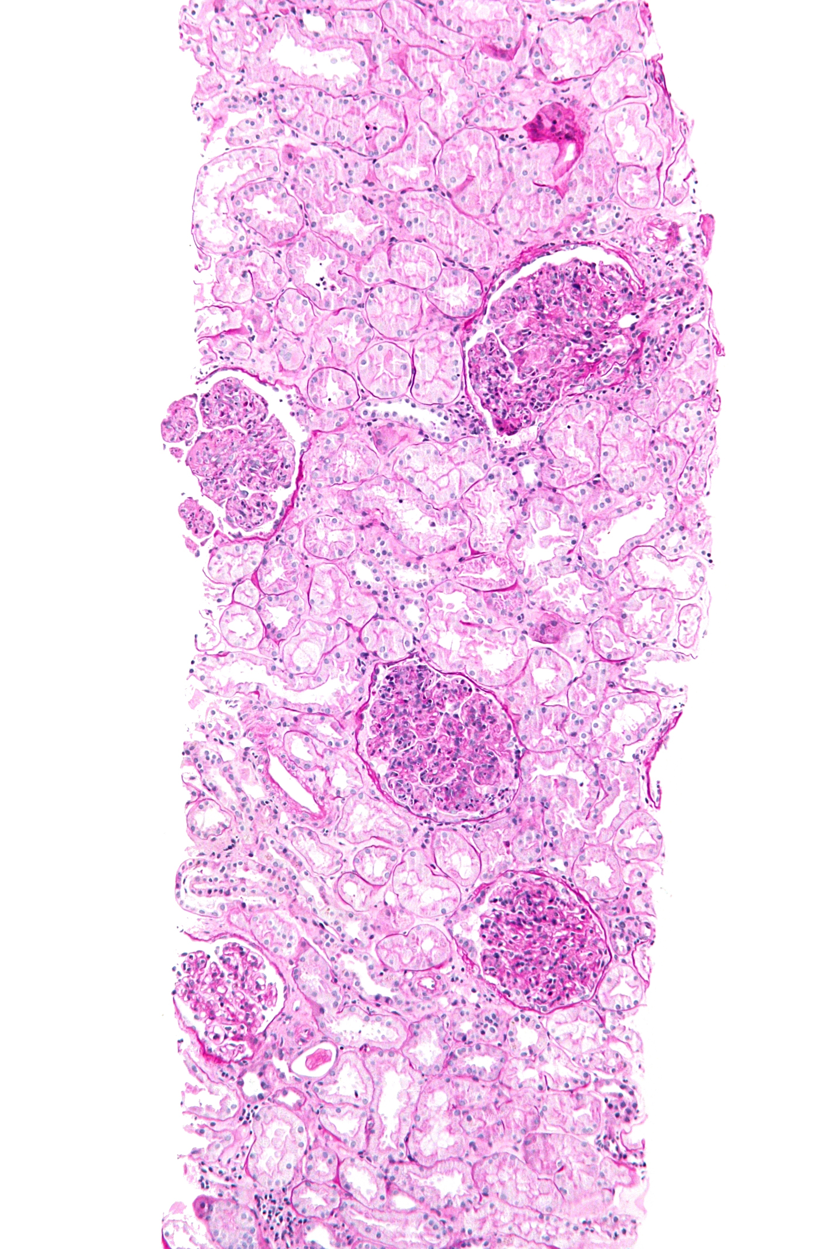 Intermediate magnification of micrograph of post-infectious glomerulonephritis. PAS stain. Kidney biopsy. Related images Intermed. mag. High mag. Very high mag.